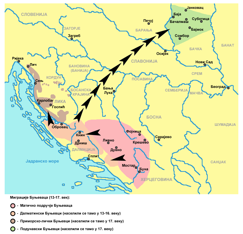 Bunjevci migrations (13th-17th century).